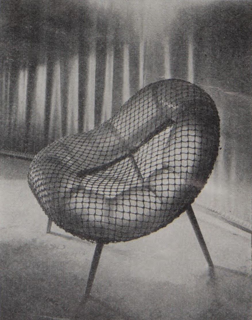 [Dartmouth Alumni Magazine article] by William H. Miller Jr 3